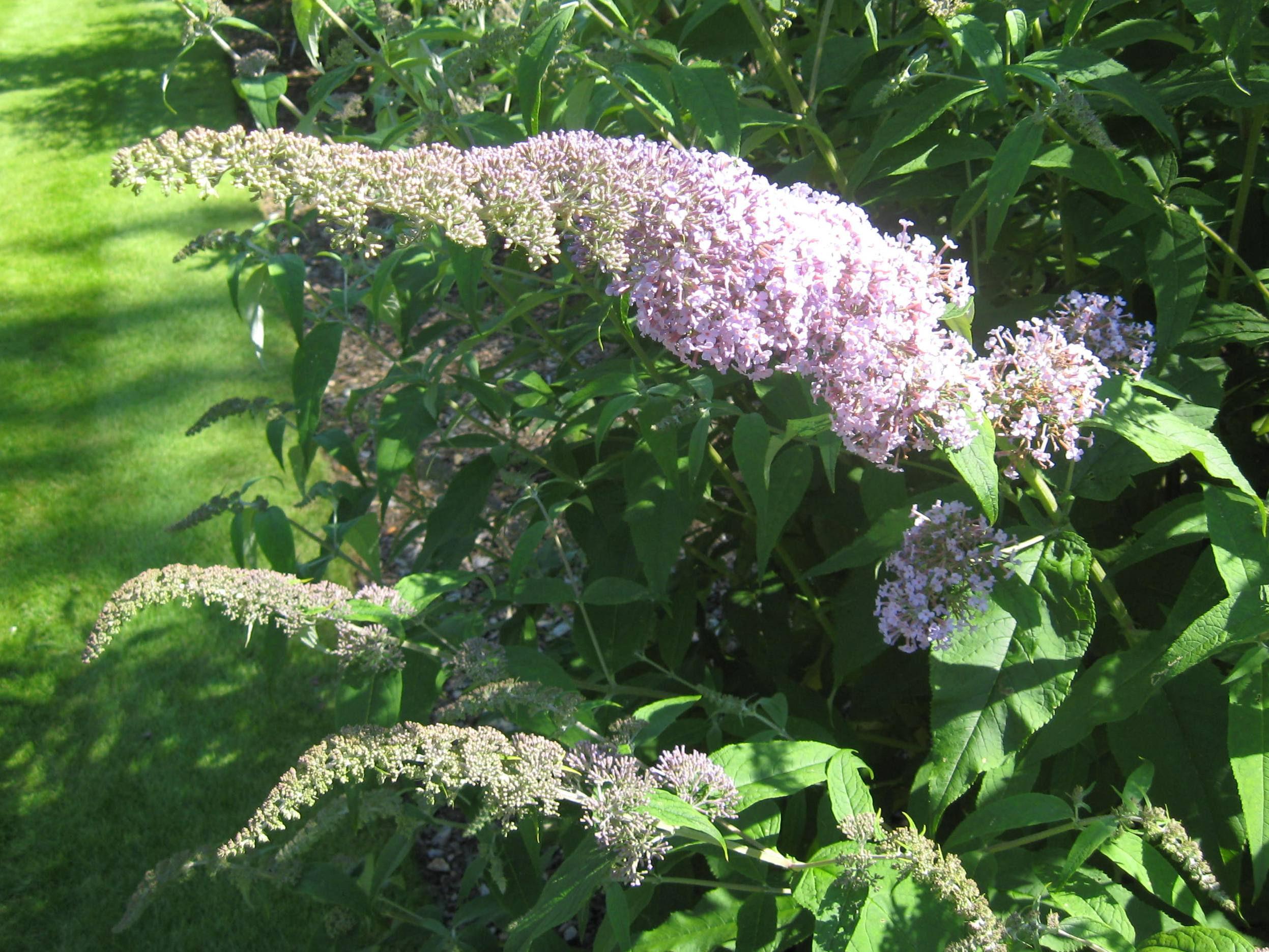 Buddleja davidii cultivar 'Castle School', photo taken at Longstock Park Nursery, UK